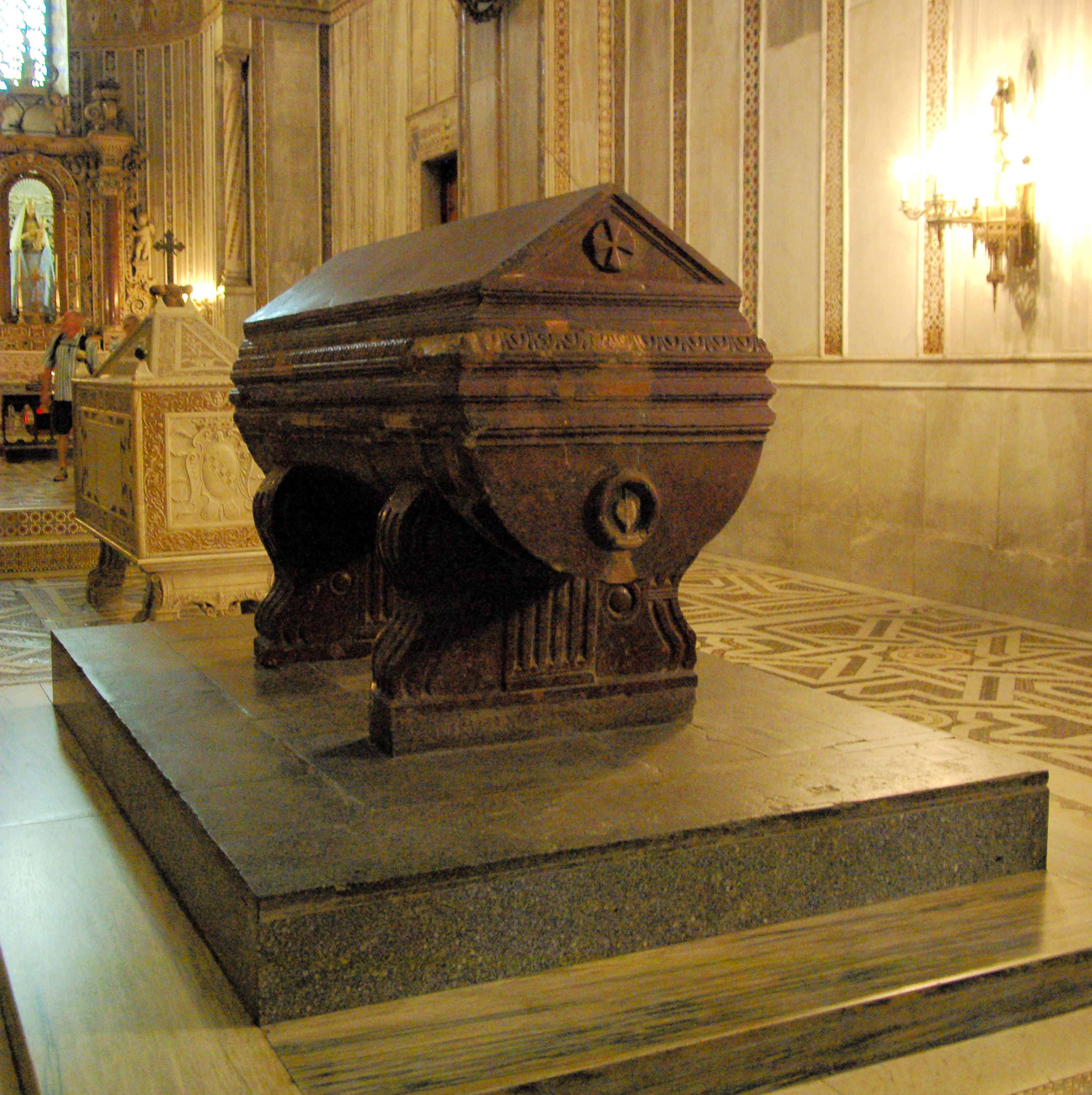 Italy, Sicily, Monreale, Cathedral, Tomb of William I of Sicily